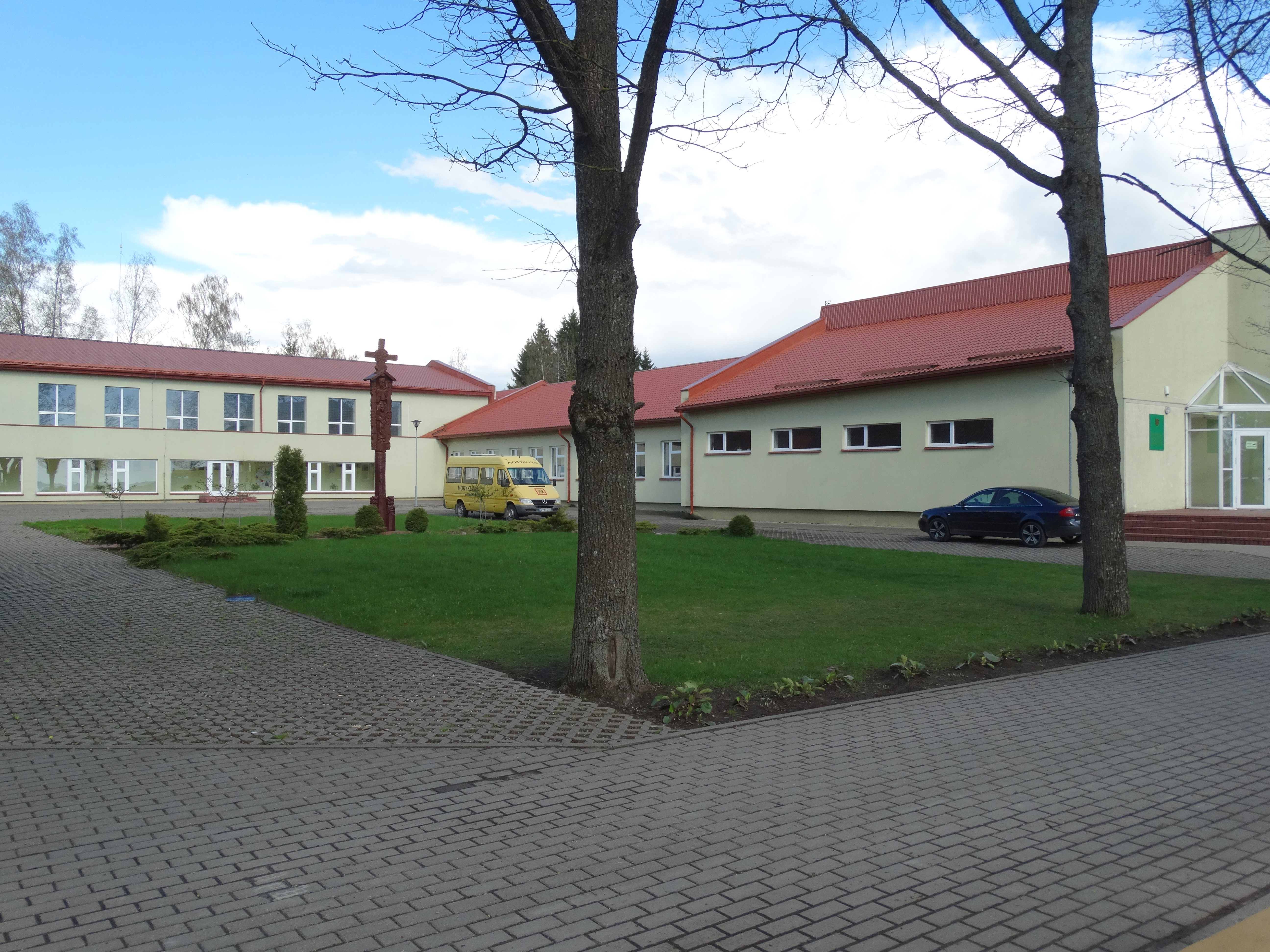 Aistuva Gymnasium, Turgeliai, Šalčininkai District, Lithuania